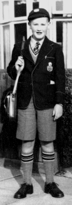 This photograph is of Patrick John McNeill about to leave home on his first day at Humberston Foundation School, Cleethorpes on 8th September 1953 - it depicts the school uniform of cap, blazer, shorts, tie and socks.